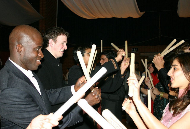 Foreigners playing Dandiya_Raas, Dandiya-Raas is a folk dance from India